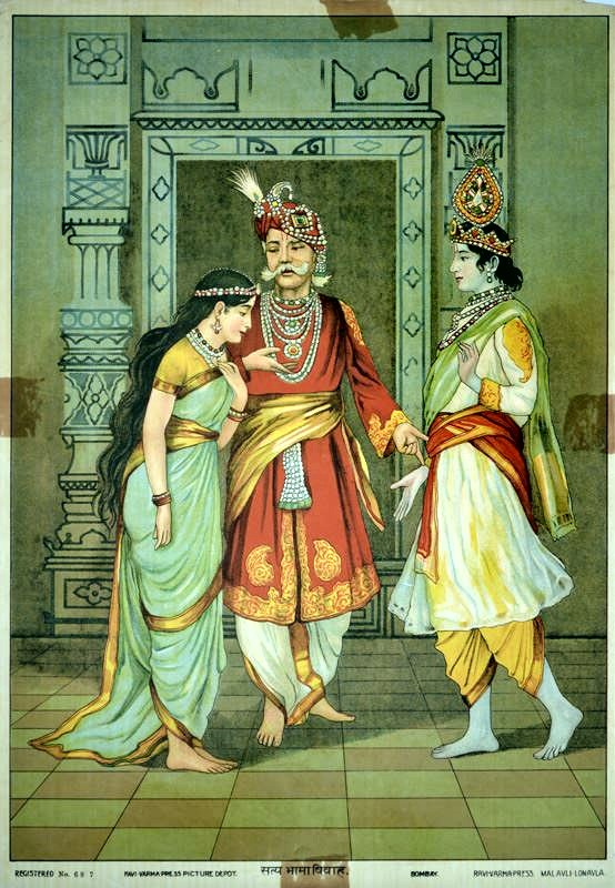 From Baroda Art Gallery